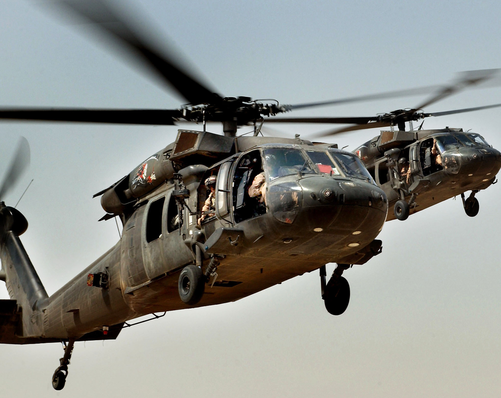 Soldiers from the 101st Airborne Division fly to Forward Operating Base Dagger near Tikrit, Iraq, aboard UH-60 Black Hawk helicopters. This photo appeared on